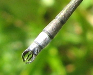 Anal appendages of male Lestes sponsa